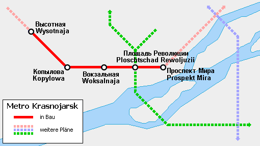 Map of the Krasnoyarsk Metro, German transcription and labeling